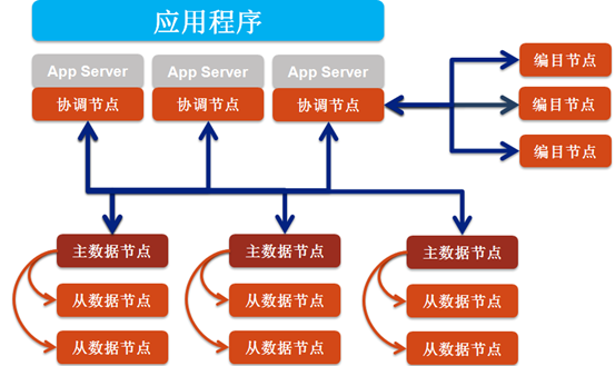 SequoiaDB Architect